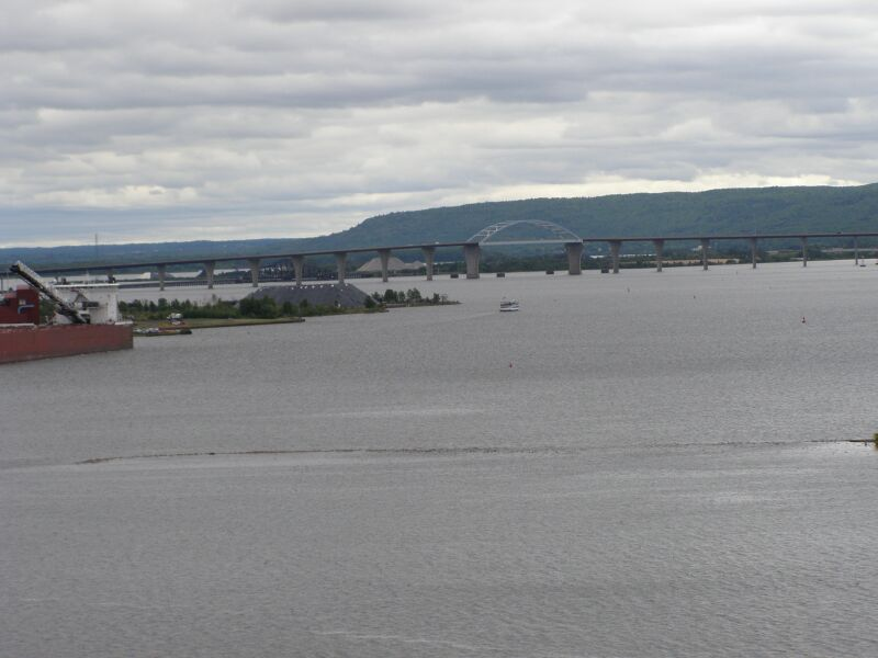 Richard I. Bong Memorial Bridge